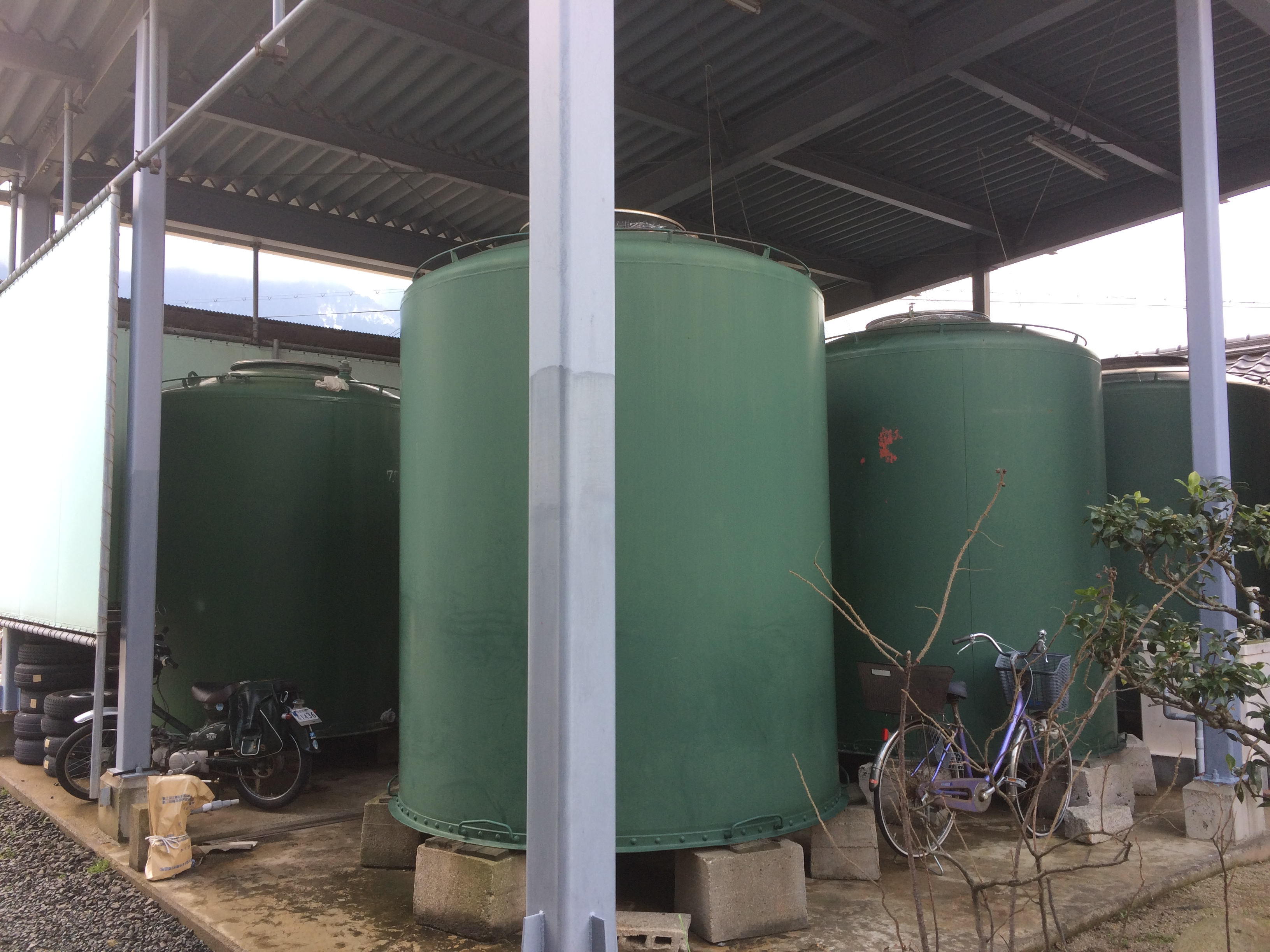 hakurei sake brewery in Yura,miyazu city,kyoto pref